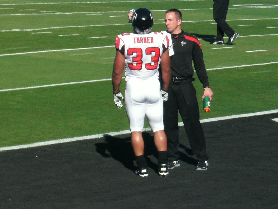 Atlanta Falcons running back Michael Turner during the 2011 season